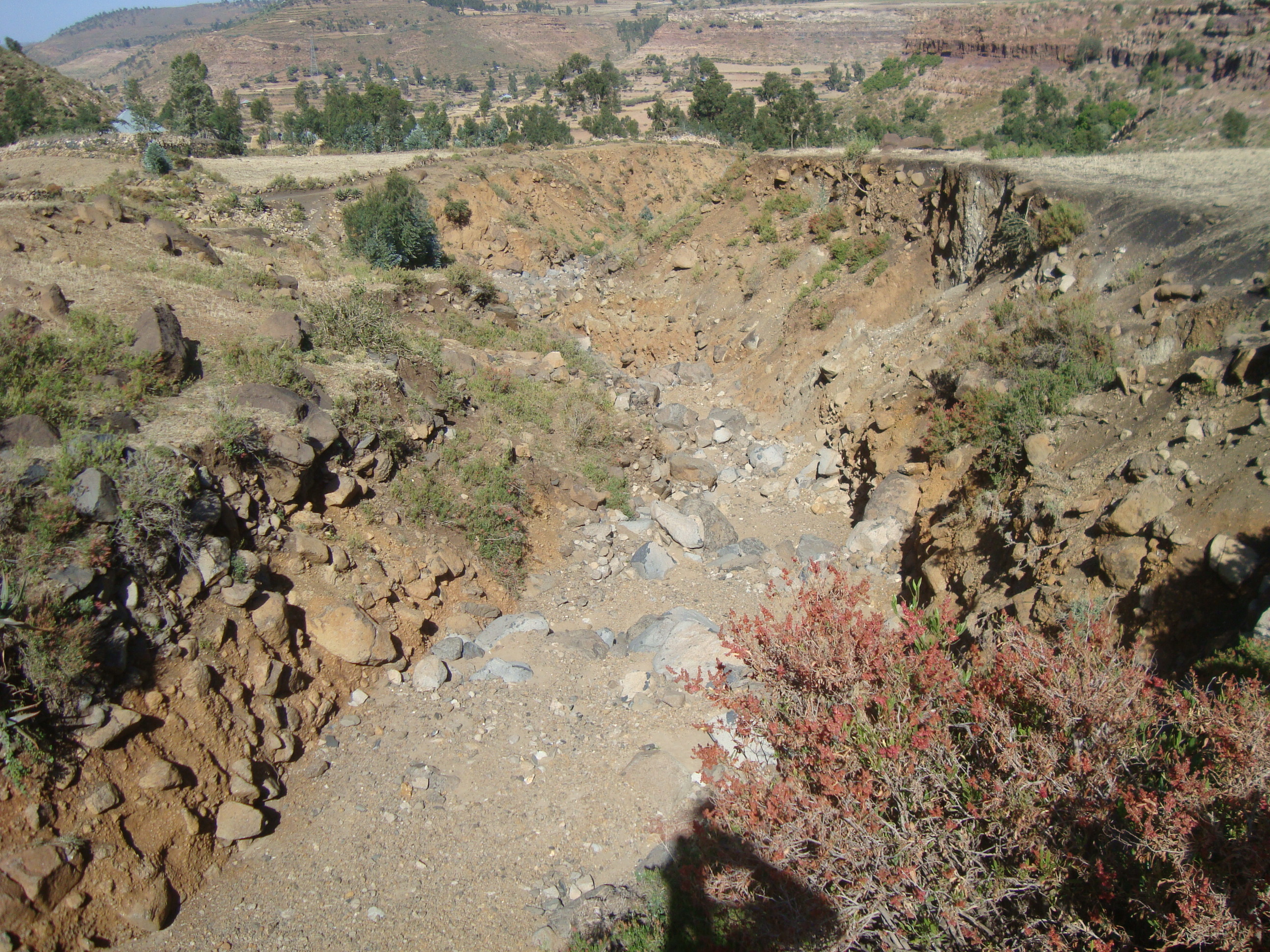 Adawro r